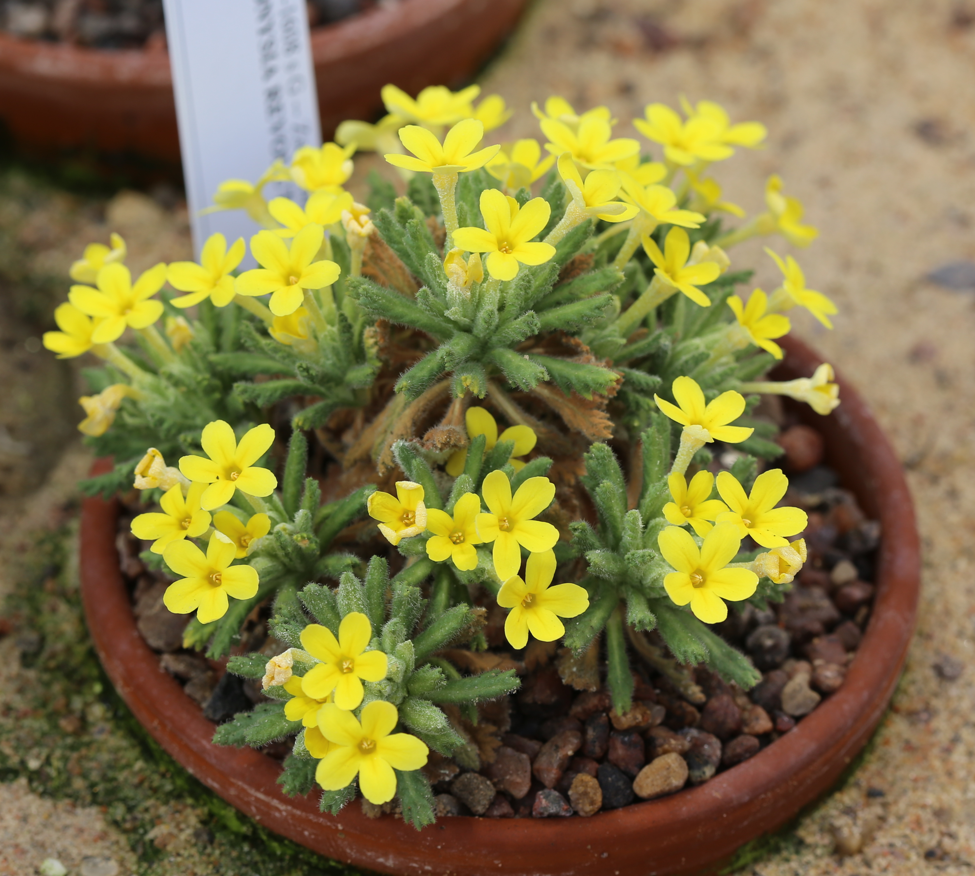 Dionysia revoluta at Gothenburg Botanical Garden in 2015. Plant id: 2013-1608 s G -- Zschummel